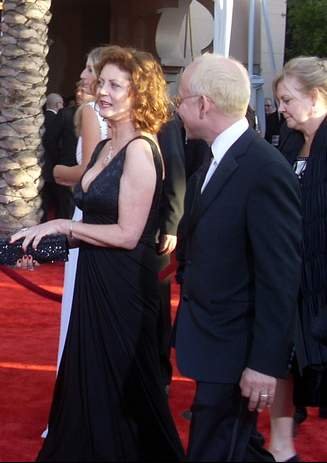 Actress Susan Sarandon, nominated to "Bernard and Doris", and actor Bob Balaban at the 15th Screen Actors Guild Awards